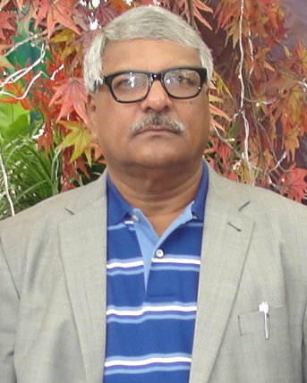 Mansur Al Basher Sohel @Genting Highland